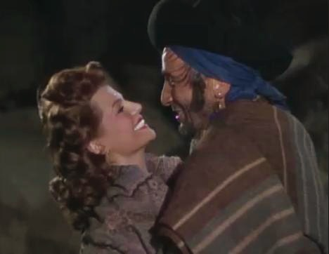 Rita Hayworth & Joseph Buloff in The Loves of Carmen - trailer (cropped screenshot)